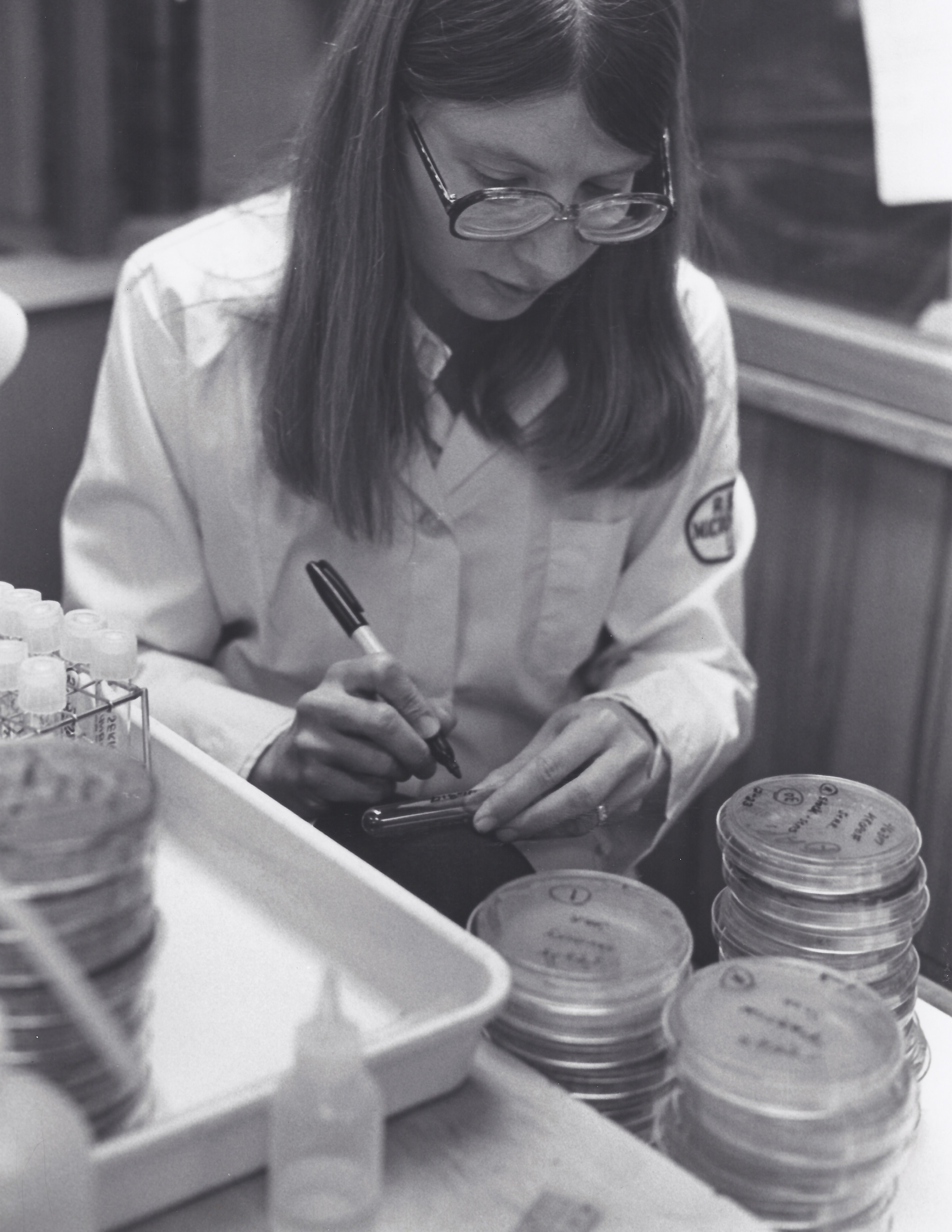 In 1978, public health officials expressed growing concern about the over-use of antibiotics, which contributes to the emergence of antibiotic resistant strains of bacteria. Lab technicians tested the effectiveness of antibiotics against specific bacteria by measuring the “zones of activity” around the bacteria on susceptibility disks. For more information on FDA History, please visit